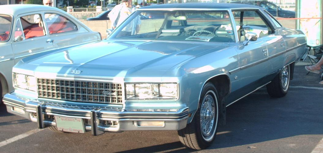 1976 Chevrolet Caprice Classic photographed in Montreal, Quebec, Canada at Gibeau Orange Julep. Due to the 1976 license plate being shown at the front, the rear shows the 1983-present Quebec license plate.